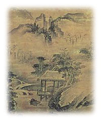 Landscape: Keiin shōchiku (紙本墨画渓陰小築図, shihon bokuga keiin shōchikuzu) or Cottage by a mountain stream. Hanging scroll, 101.5 cm × 34.5 cm (40.0 in × 13.6 in), ink on paper. Located at Konchi-in (金地院), Kyoto. The scroll has been designated as National Treasure of Japan in the category paintings.